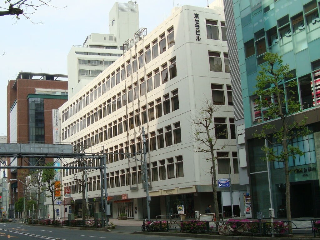 Kyocera Harajuku building, Shibuya, Tokyo